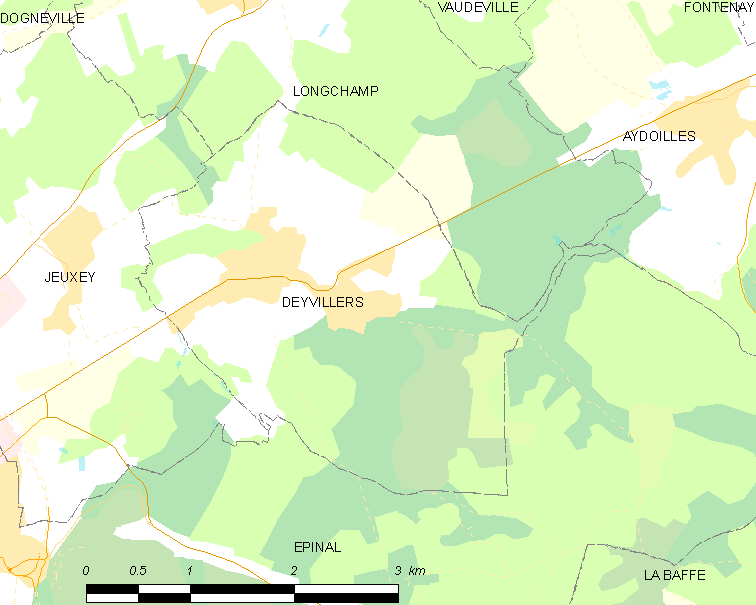 Map of French municipality Deyvillers